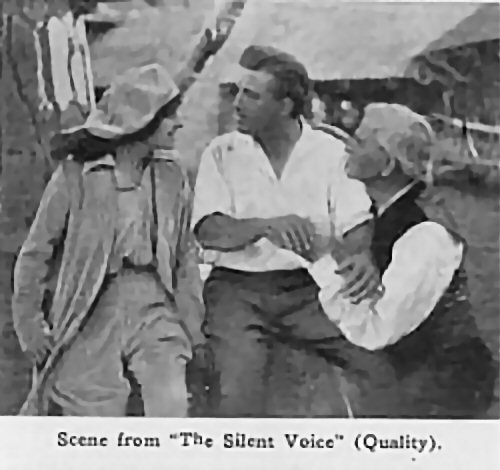 Scene from the film The Silent Voice (1915).